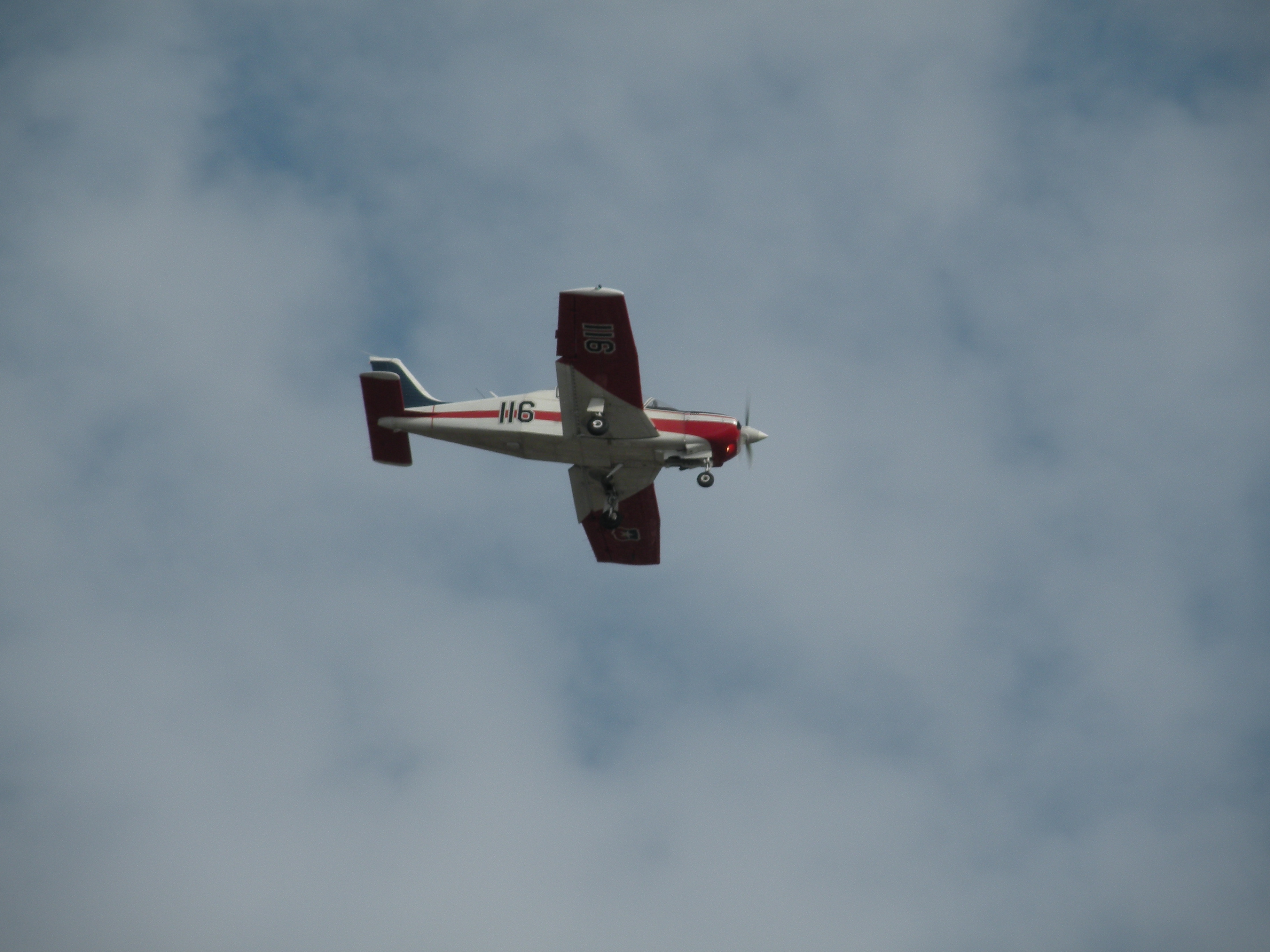 ENAER T-35 Pillan of Chilean Air Force (Fuerza Aérea de Chile) in flight over Santiago at military parade (parada militar) in 2009